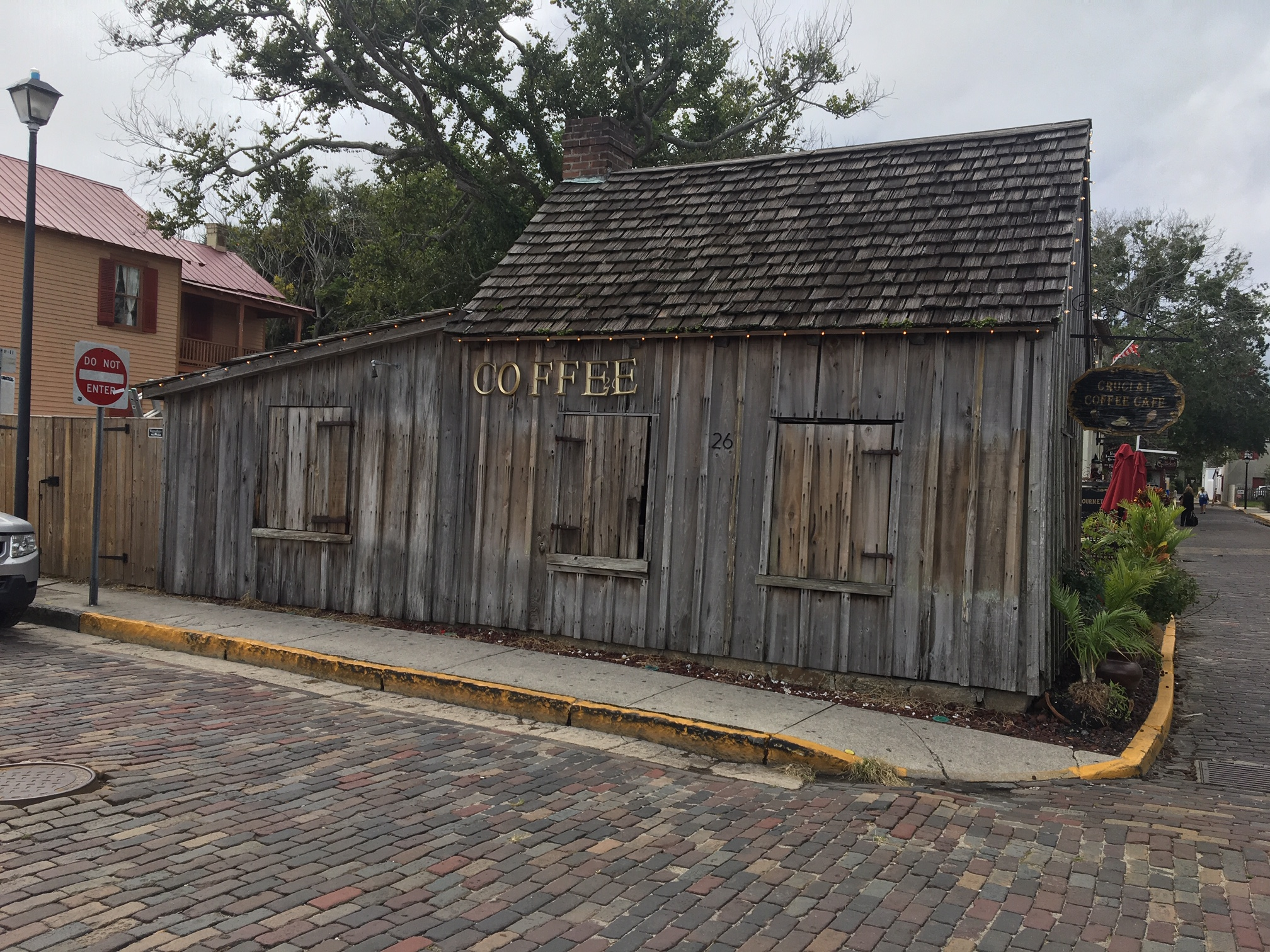 Photo of the Old Blacksmith Shop in St. Augustine, now Crucial Coffee Cafe